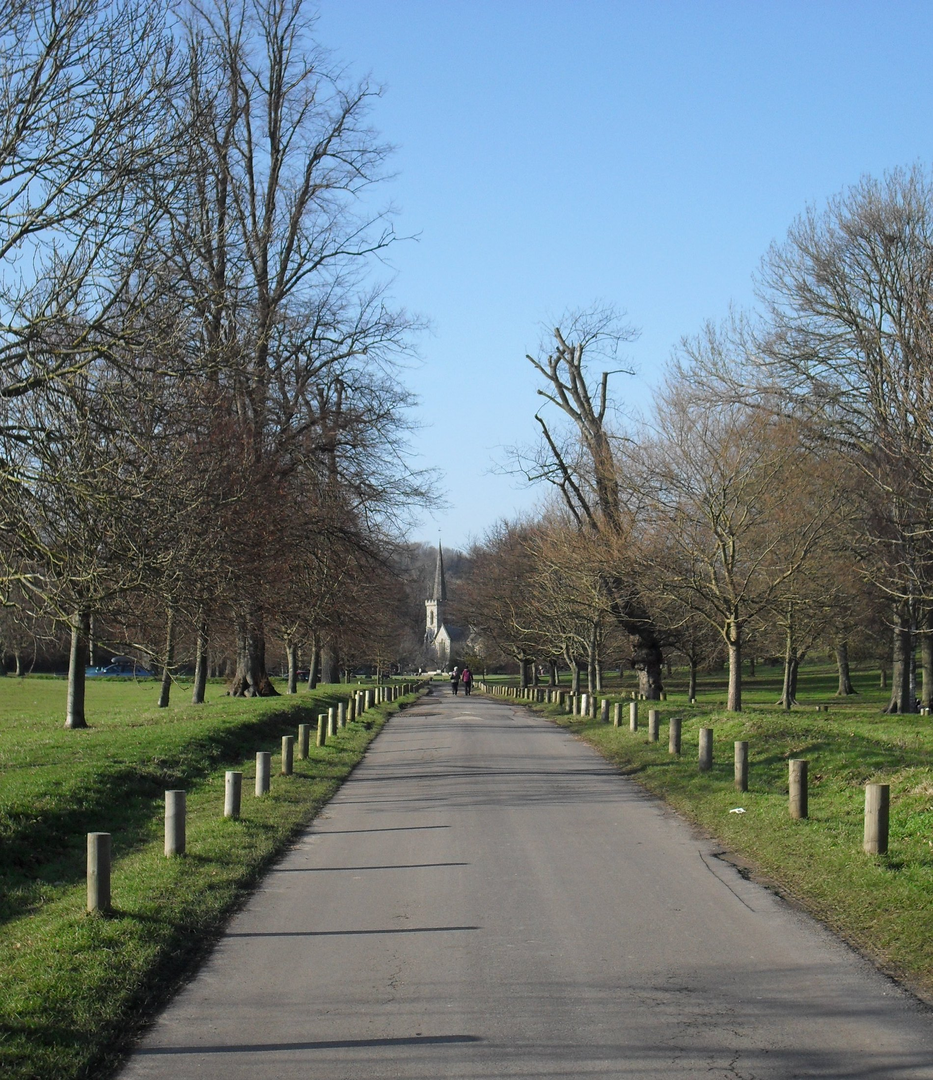 Road leading to Stanmer Church and Village, City of Brighton and Hove, East Sussex, England. Stanmer is the largest park and largest conservation area within the city of Brighton and Hove. It is an isolated, rural country estate associated with the Pelham family. The council have owned it since the 1940s.